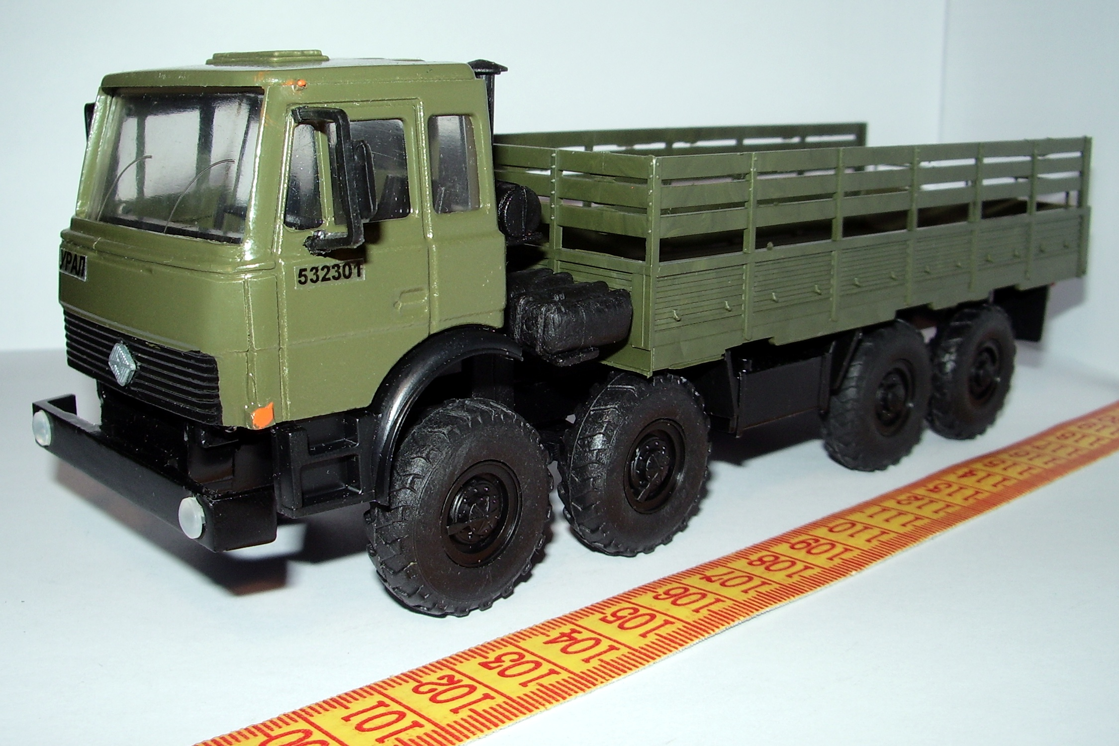 Scale model (1:43) of Ural-532301